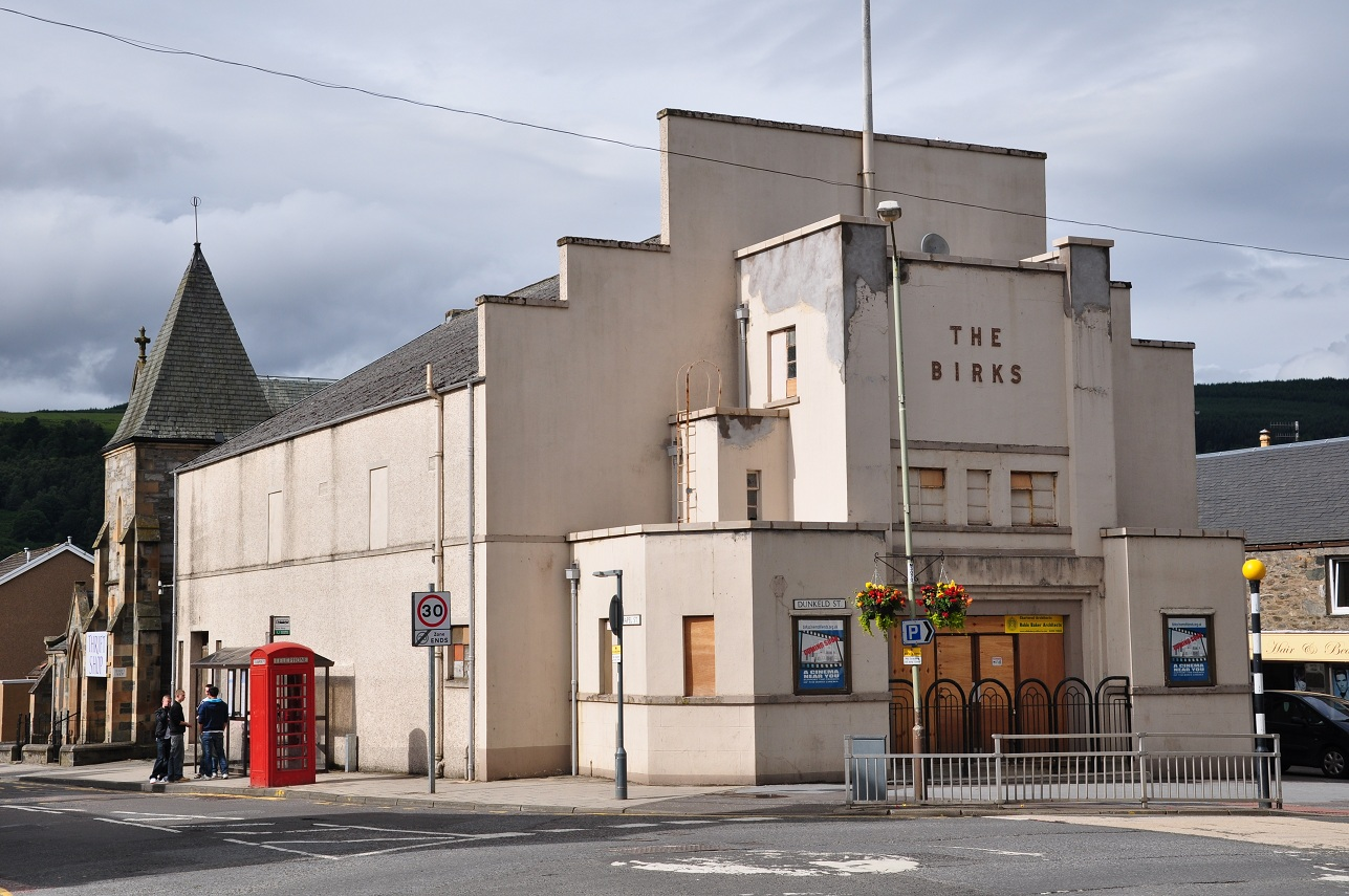 The derelict Birks Cinema on the corner of Chapel Street and Dunkeld Street in central Aberfeldy, Perthshire, Scotland. Built in 1939 it was used as a cinema until the early 1980’s. It then turned into an amusement hall which closed in 2004. The building with its late Art Deco facade stands empty since. Currently (2010) the Friends of the Birks Cinema aim to transform it into a modern, community run cinema again.